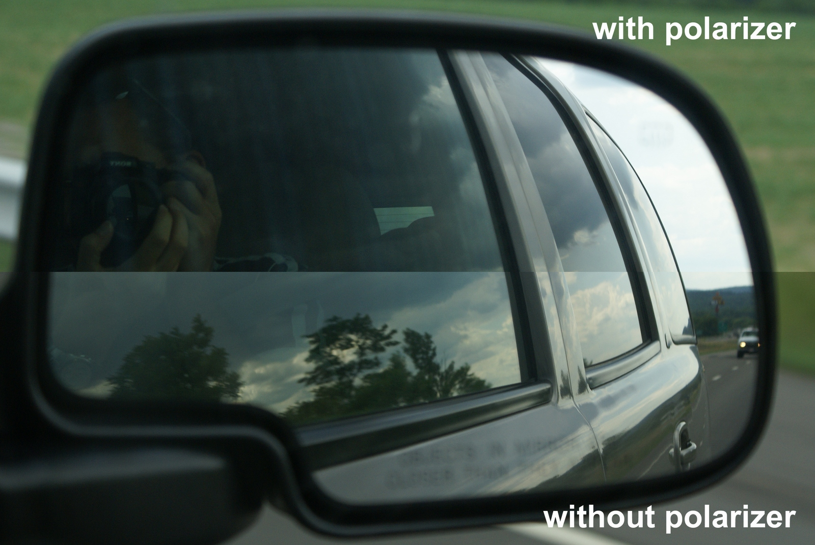 Limiting Reflections using a Polarizer Filter